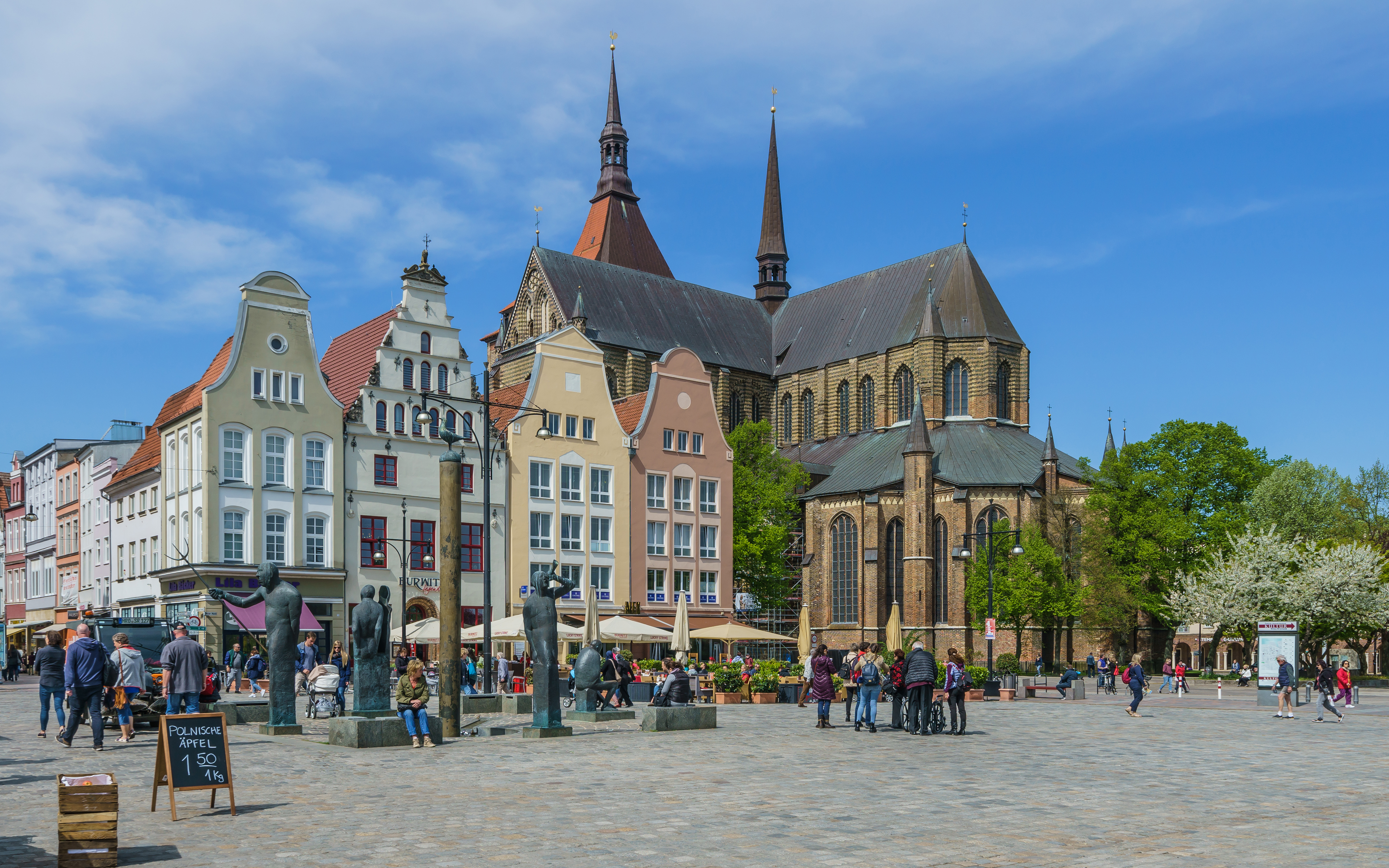 St. Mary Church in Rostock, Germany